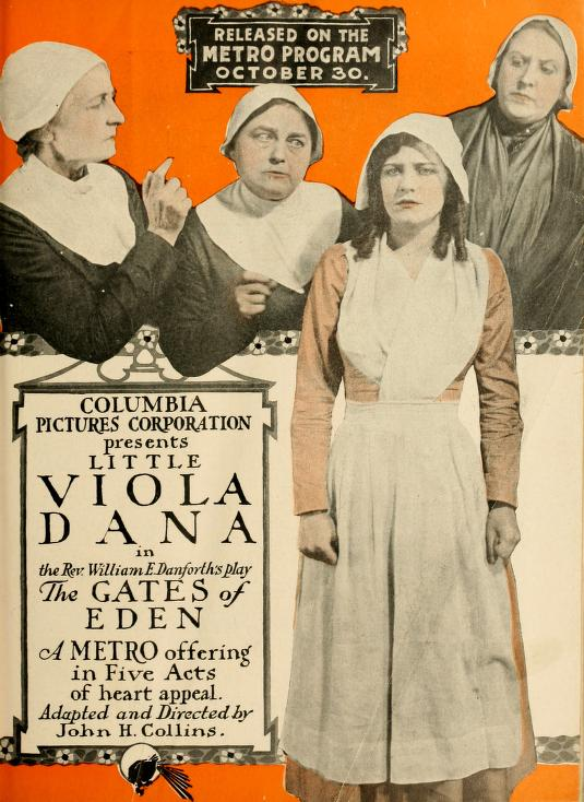 Advertisement in Moving Picture World for the American film The Gates of Eden (1916).